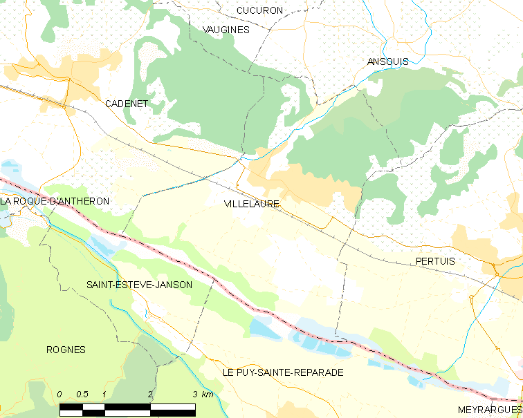 Map of French municipality Villelaure